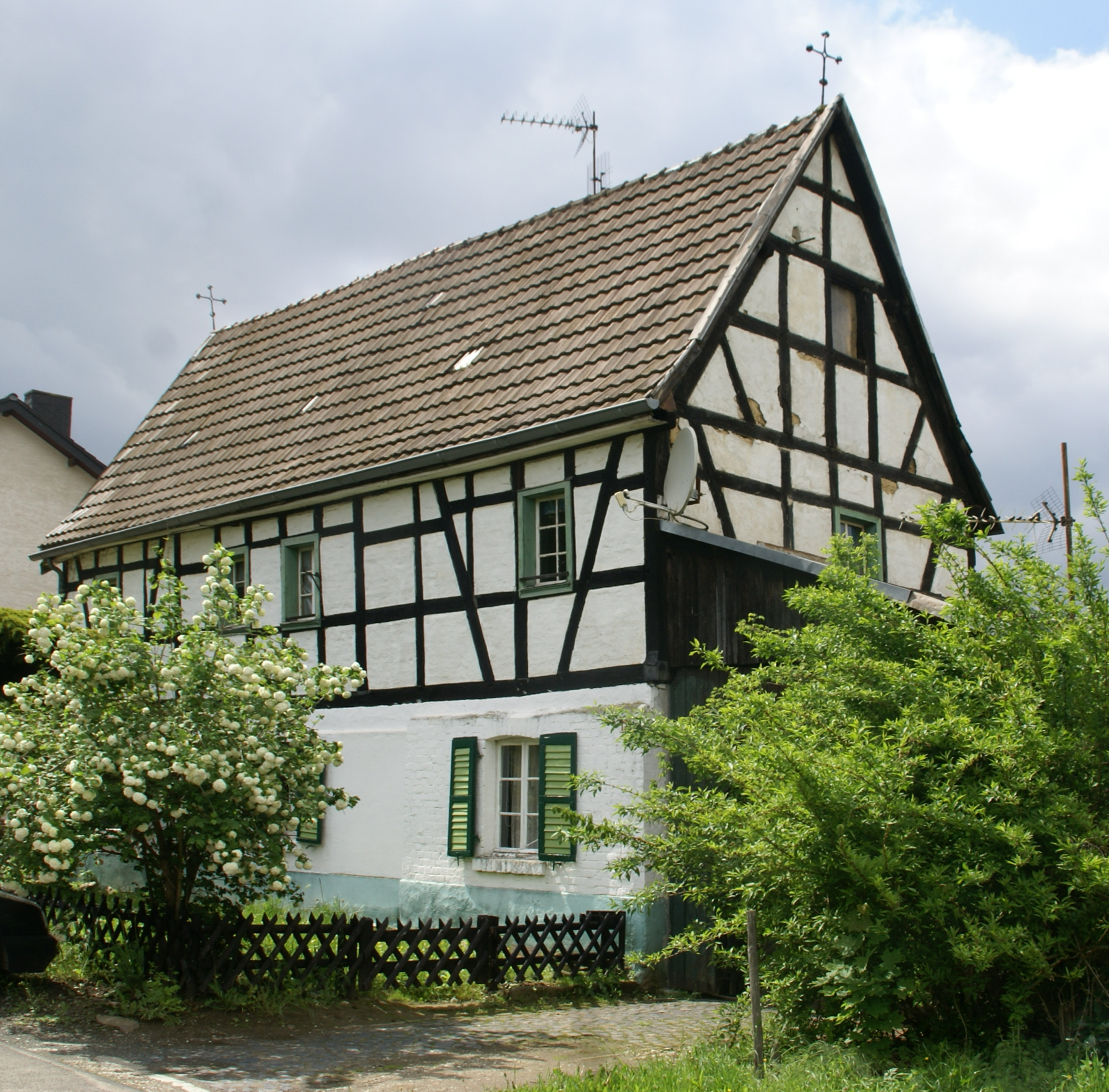 Half-timbered house in Impekoven, Henri-Spaak-Str. 174, community Alfter